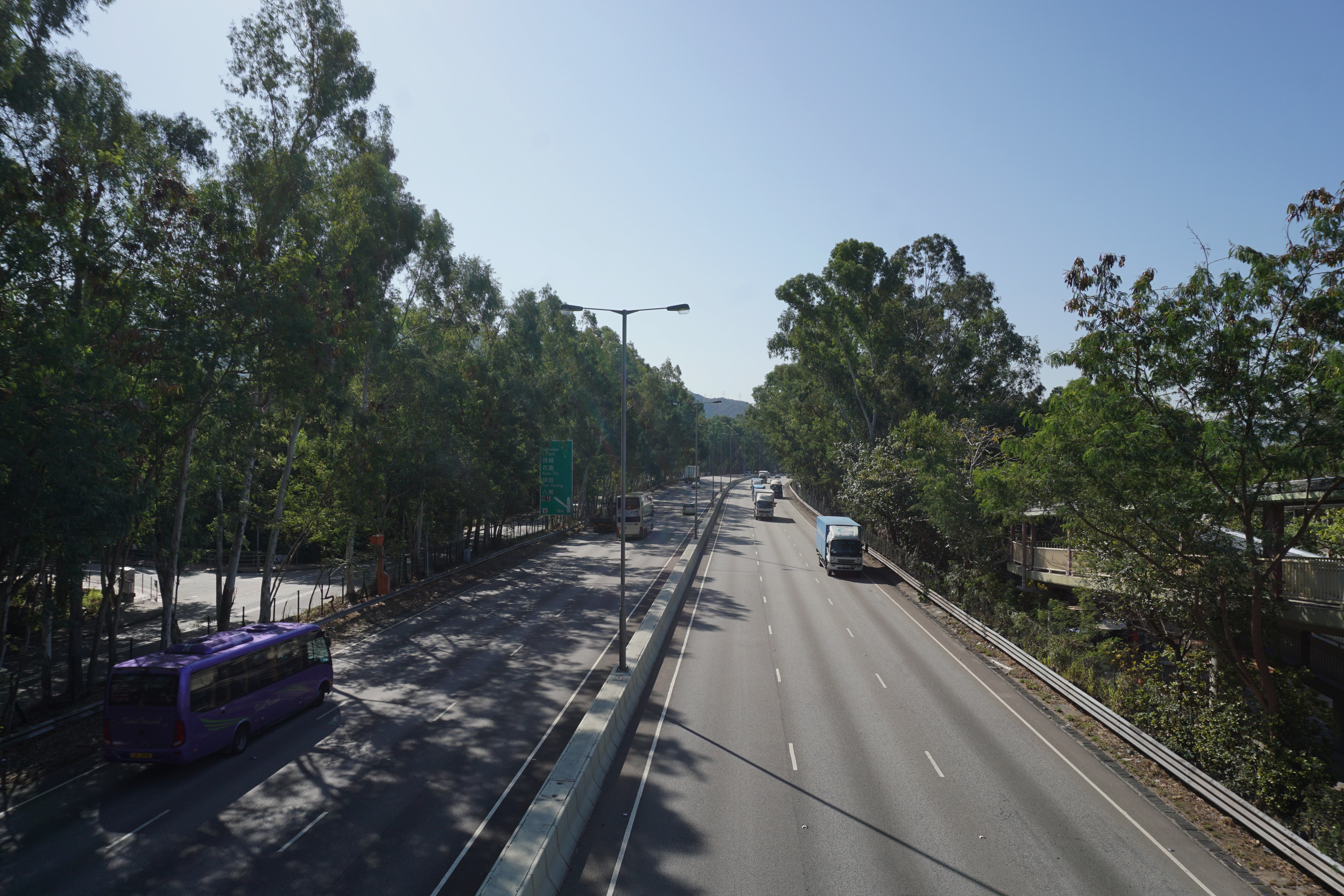 San Tin Highway in Ngau Tam Mei, Hong Kong.